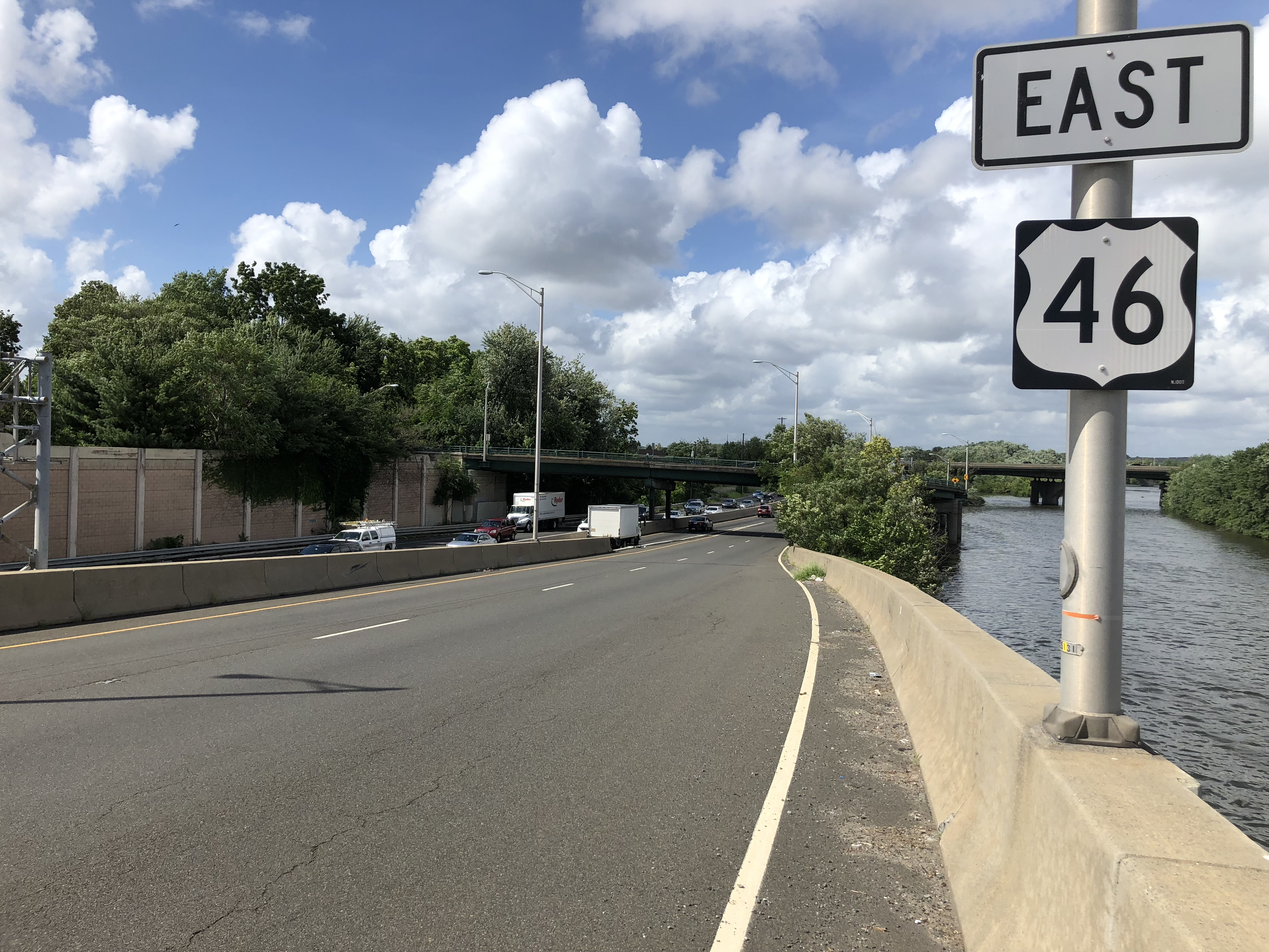 View east along U.S. Route 46 just west of New Jersey State Route 21 (McCarter Highway) in Clifton, Passaic County, New Jersey